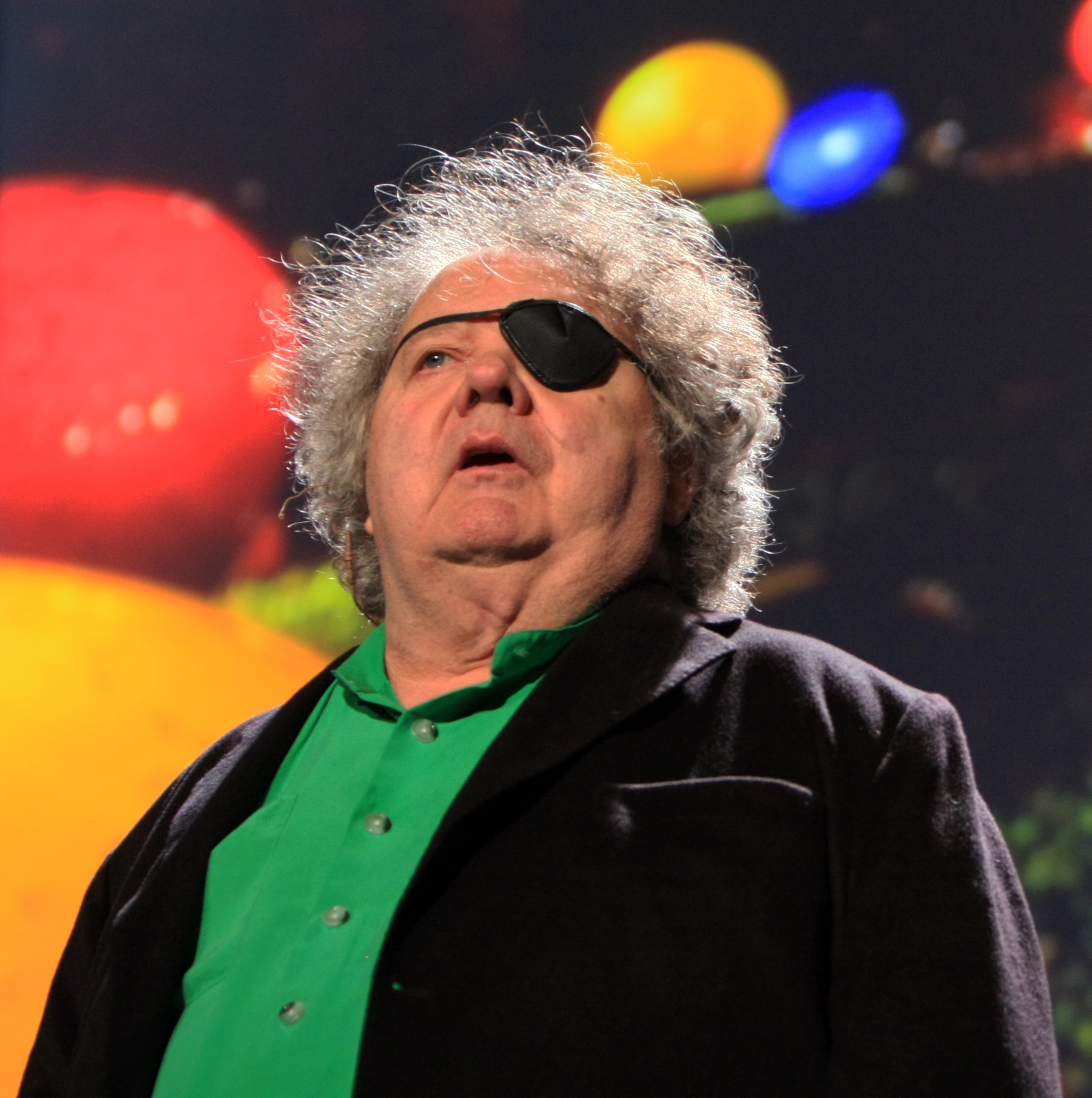 Dale Chihuly in 2009